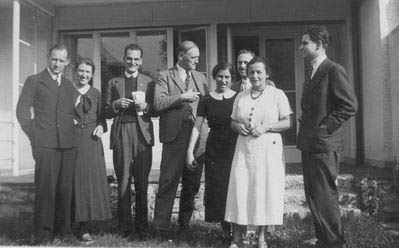 SCI. Committee with Pierre Ceresole in Switzerland, 1936